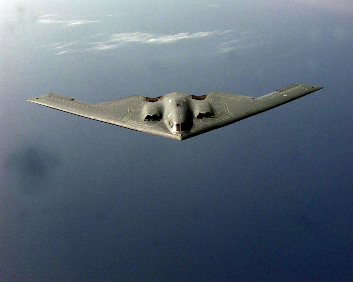 OPERATION ALLIED FORCE -- A B-2 Spirit bomber prepares to receive fuel from a KC-135 Stratotanker during a mission in the European theater supporting NATO Operation Allied Force. The B-2 Spirit is a multi-role bomber capable of delivering both conventional and nuclear munitions. A dramatic leap forward in technology, the bomber represents a major milestone in the U.S. bomber modernization program. The B-2 brings massive firepower to bear, in a short time, anywhere on the globe through previously impenetrable defenses. (U.S. Air Force photo by Staff Sgt. Ken Bergmann)